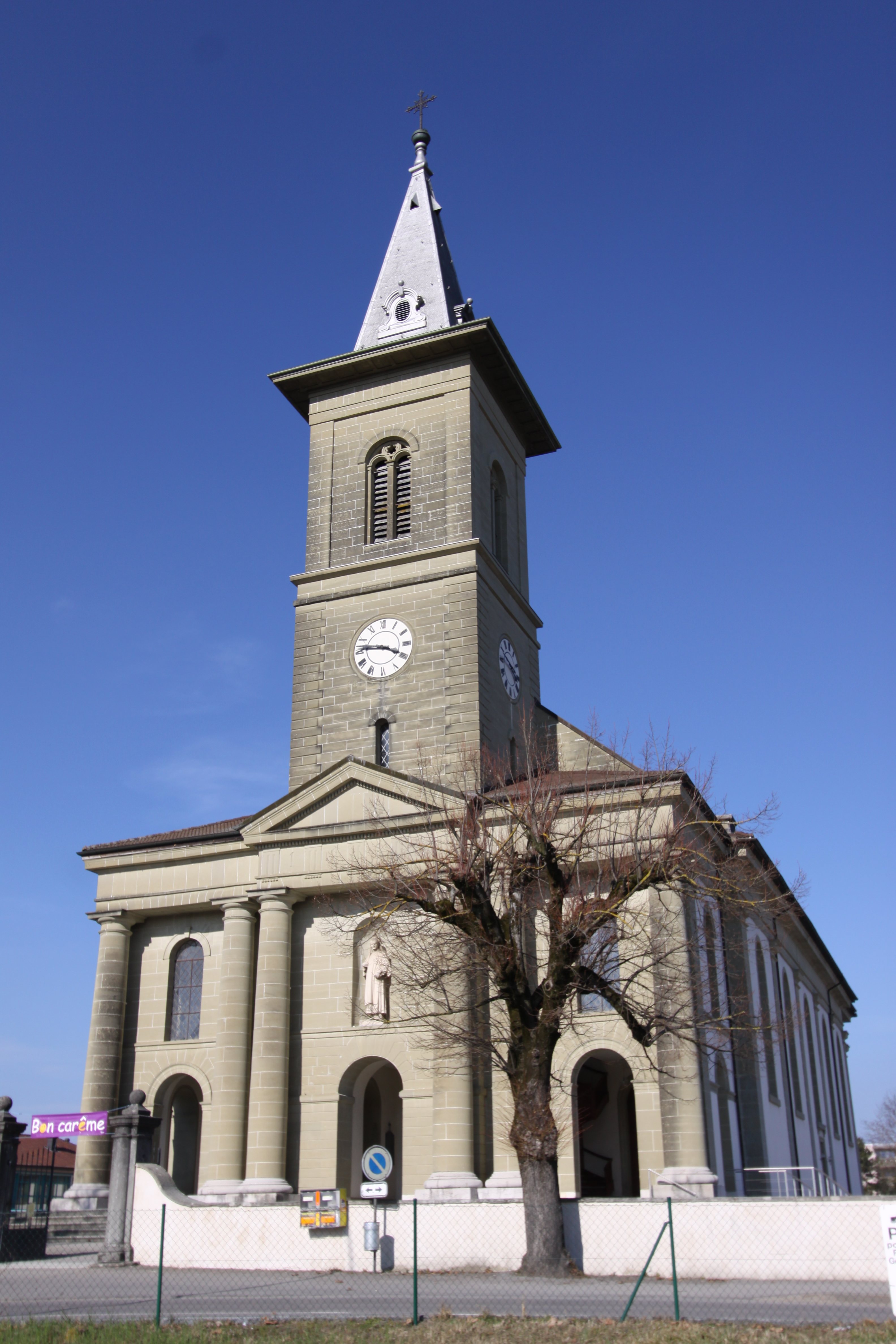 St. Etienne's Church, Route du Centre 10, Belfaux